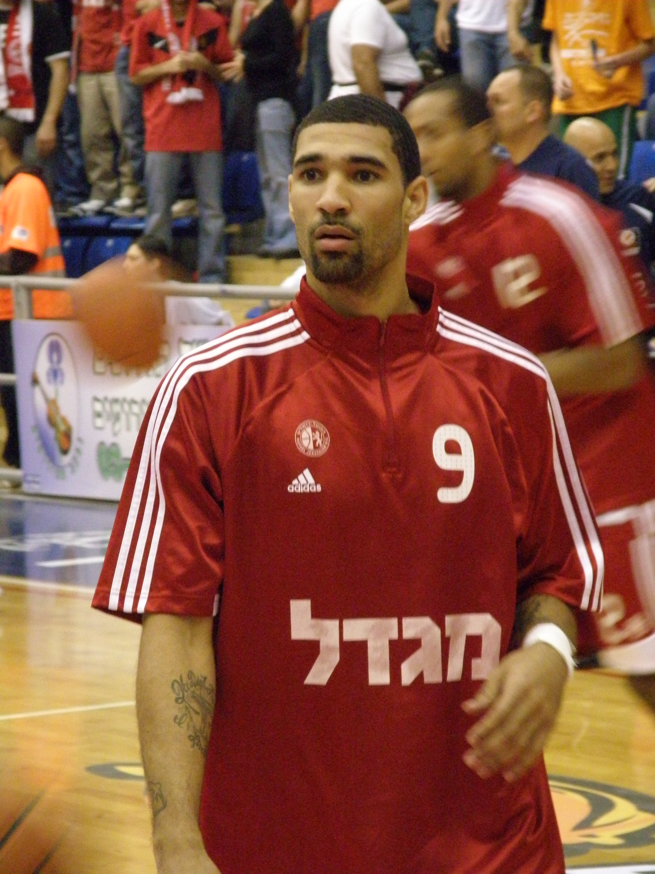 American basketball player playing for the "Hapoel Jerusalem" club in Israel (2010)